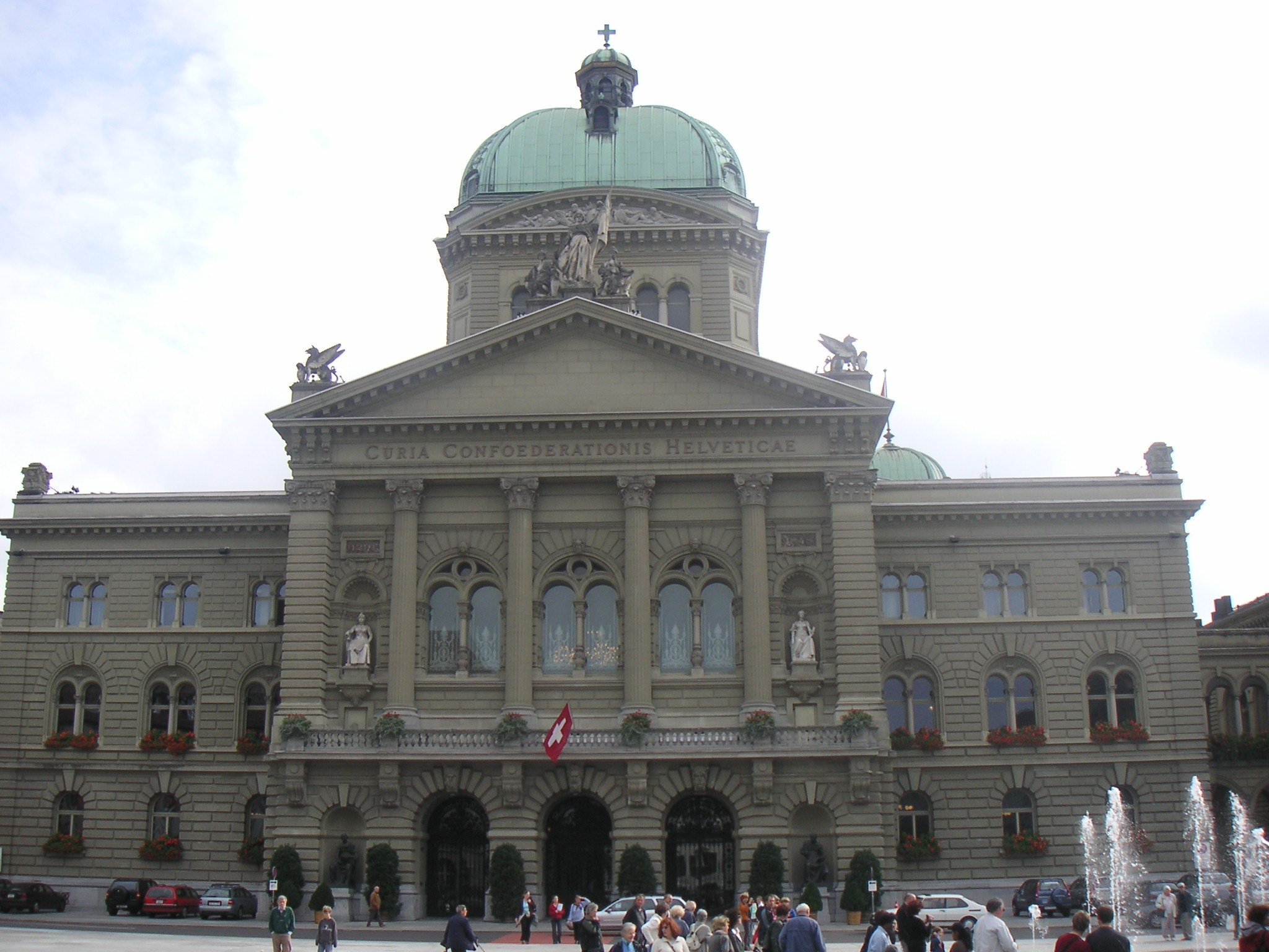 Curia Confoederationis Heleticae - Swiss parliament and government.